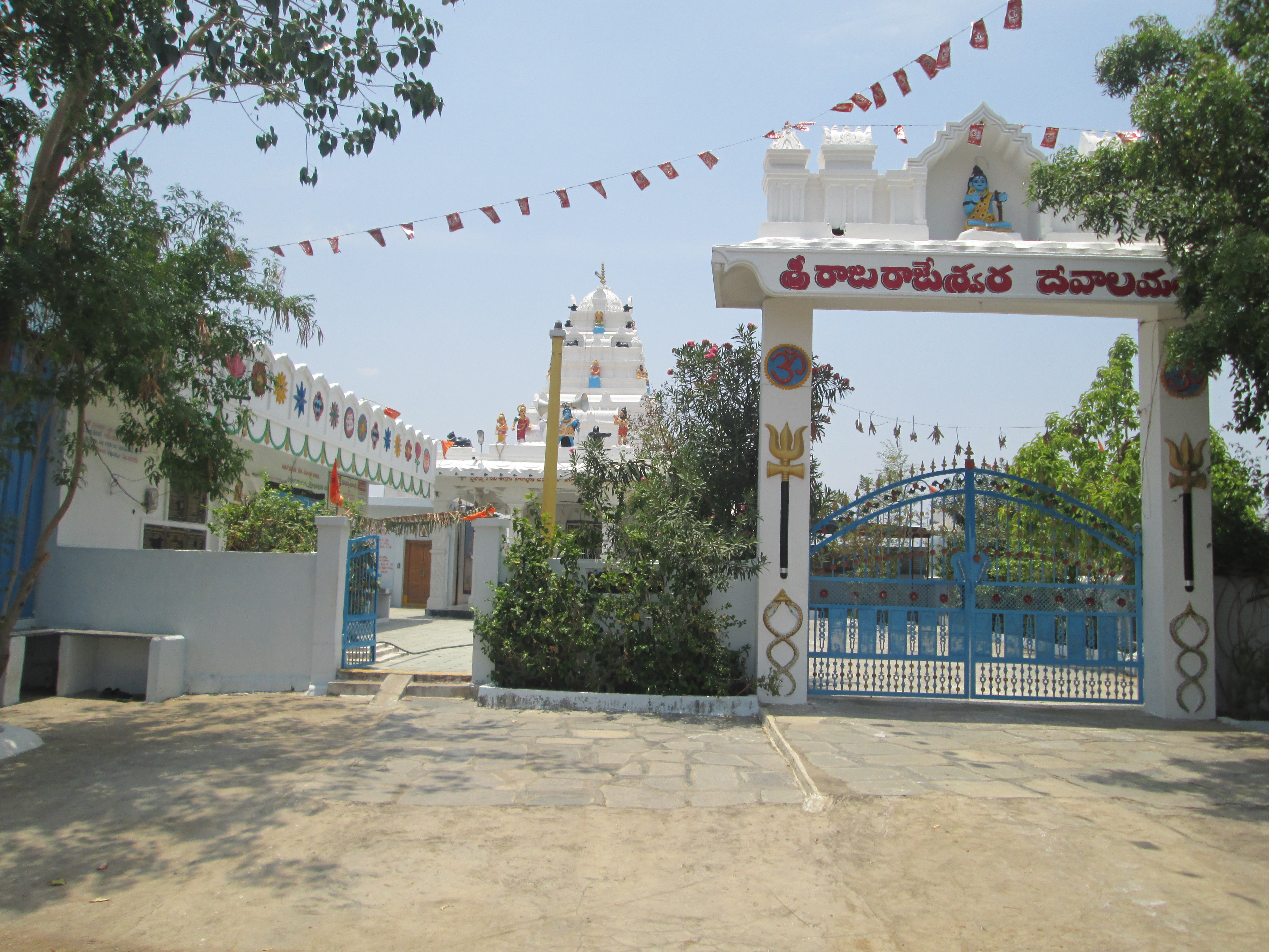 అక్కన్నపేట్